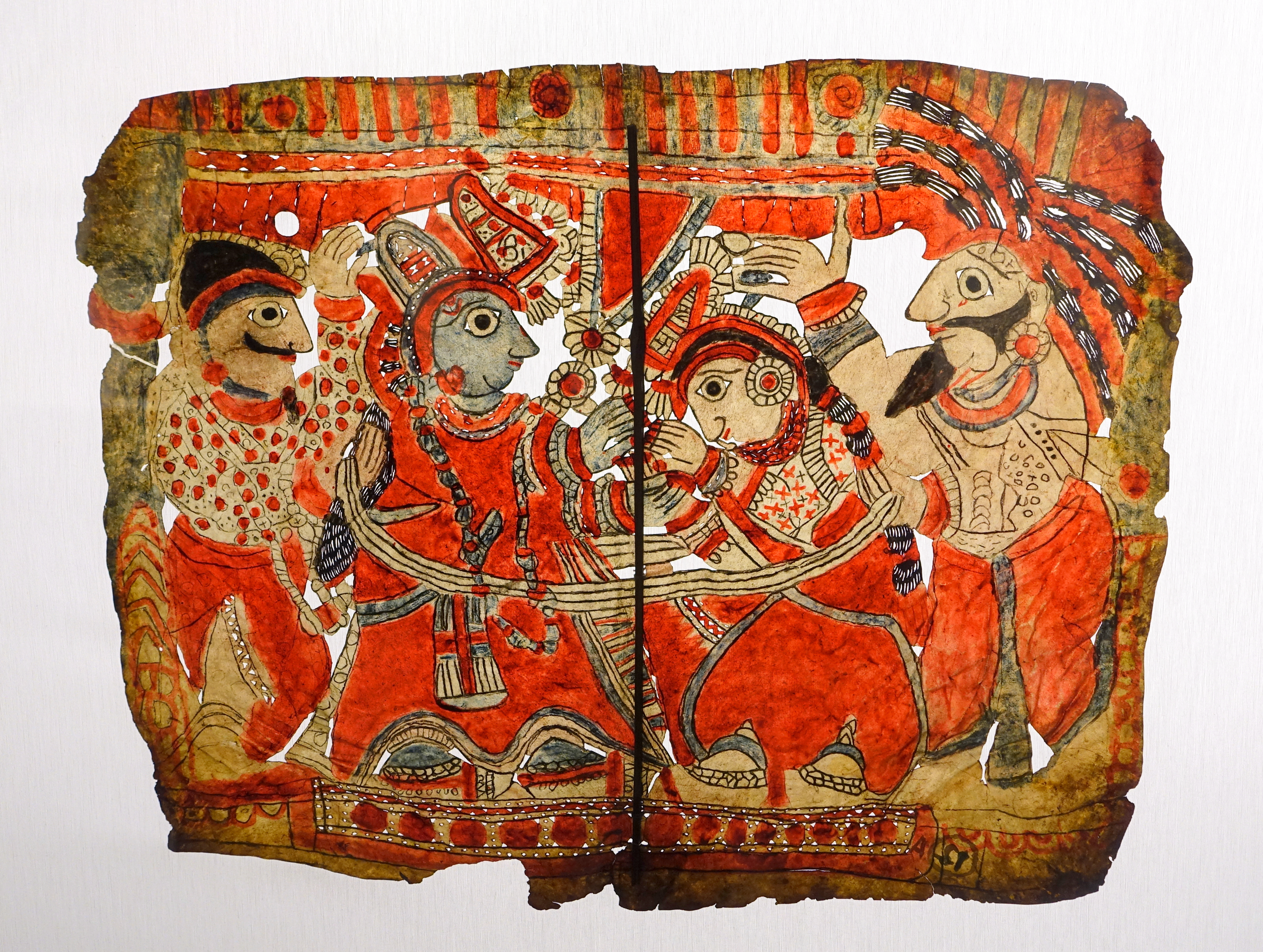 Exhibit in the Museu do Oriente - Lisbon, Portugal. This work is old enough so that it is in the public domain.